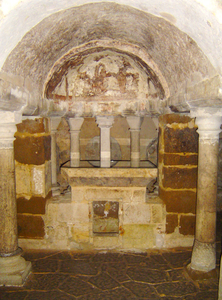 The crypt of the church St. Wiperti in Quedlinburg (Germany)